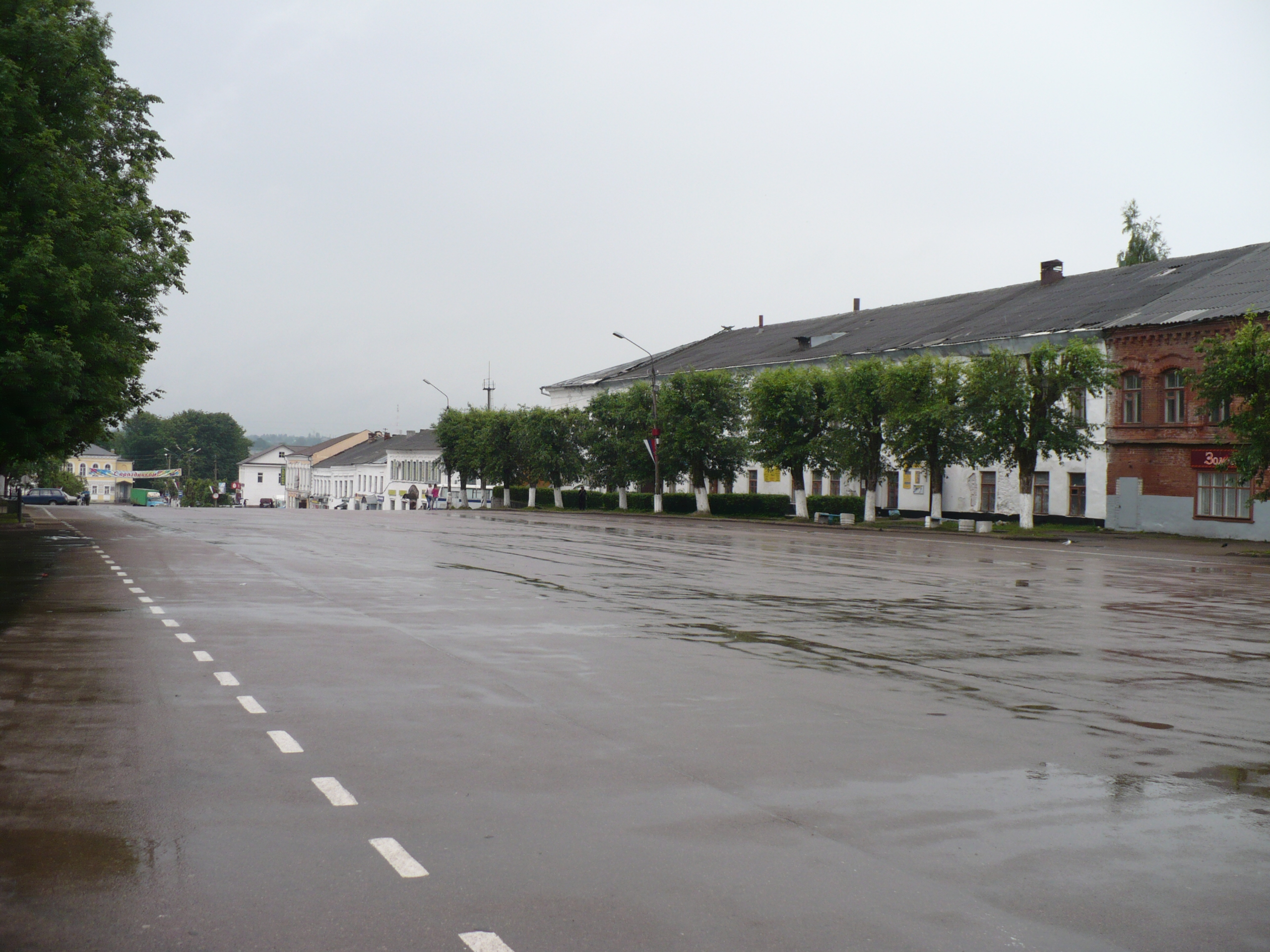 Ploshad Svobody (Liberty Square) in Valday